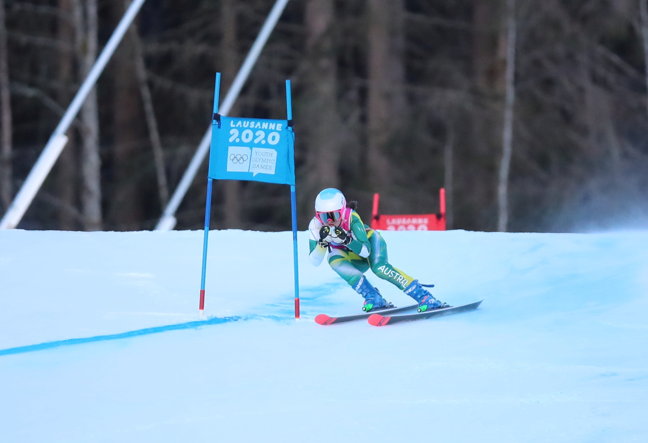 1st run of Alpine Skiing – Women's Giant Slalom at the 2020 Winter Youth Olympics in Lausanne on 12 January 2020.